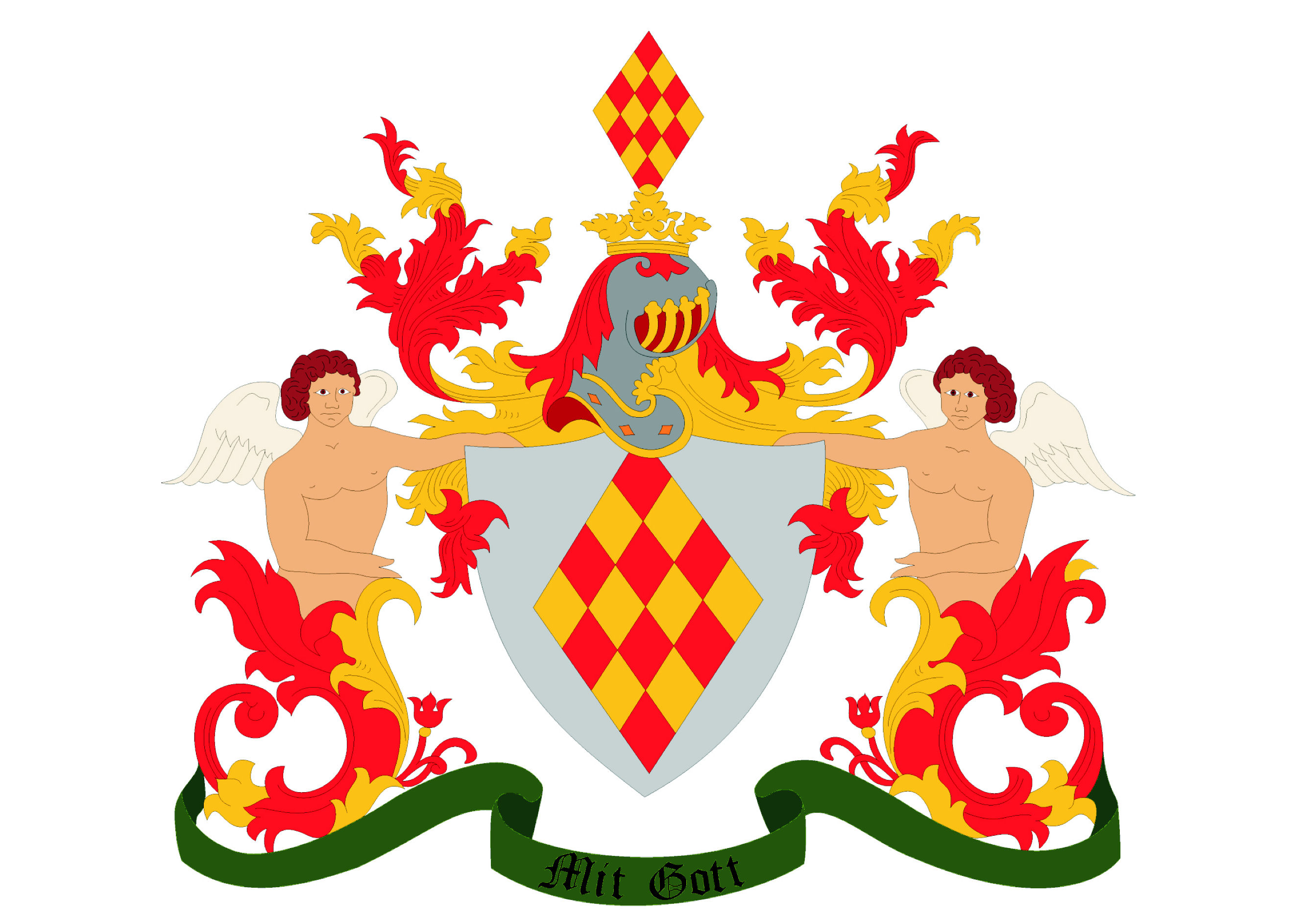 Code of Conduct Gronefamily